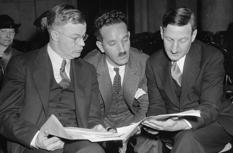 J. Warren Madden (left), Chair of the National Labor Relations Board (NLRB), is shown going over testimony with Charles Fahy (right), General Counsel of the NLRB, and Nathan Witt, NLRB Executive Secretary, prior to testifying before the United States Senate Committee on Commerce on December 13, 1937, in Washington, D.C.